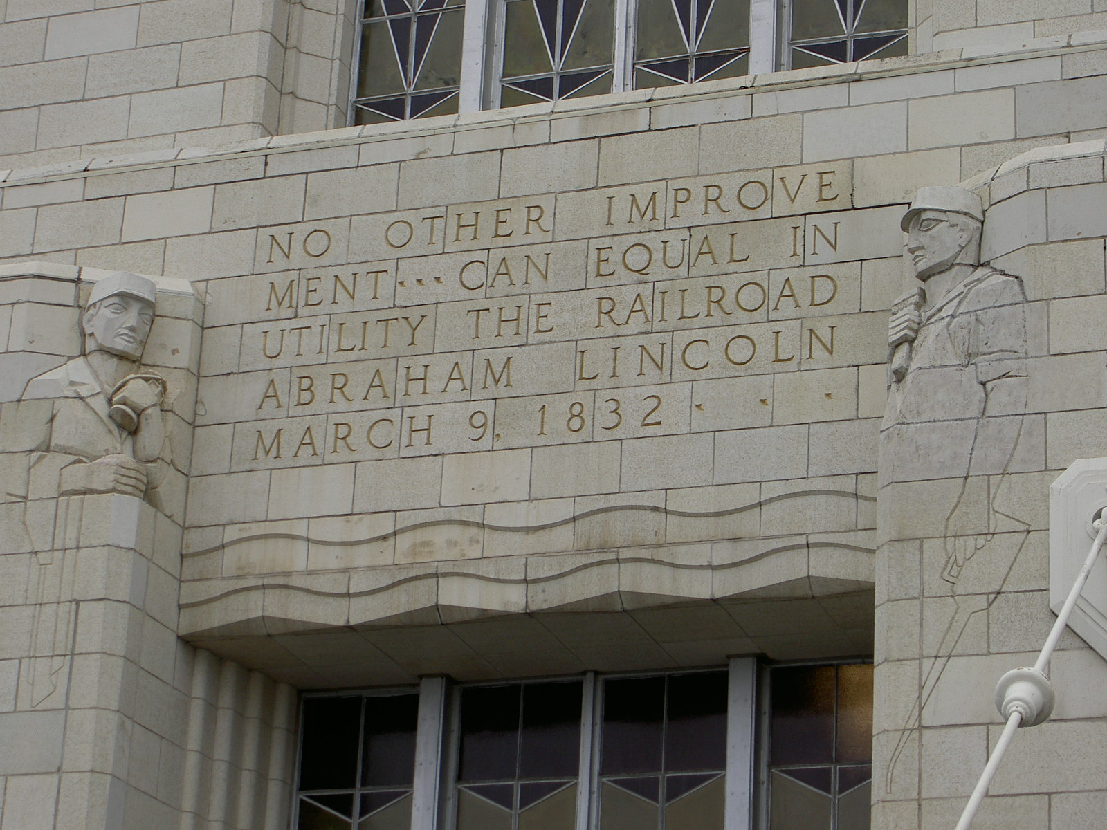 I noticed that there were no pictures of the Union Station here and it's article describes the architecture. I made this picture on a Feb. 2005 road trip and think it fits great to the article and really puts the massive size of Union Station into perspective. It is one of two pictures showing the famous quotes that are located above the entrances.